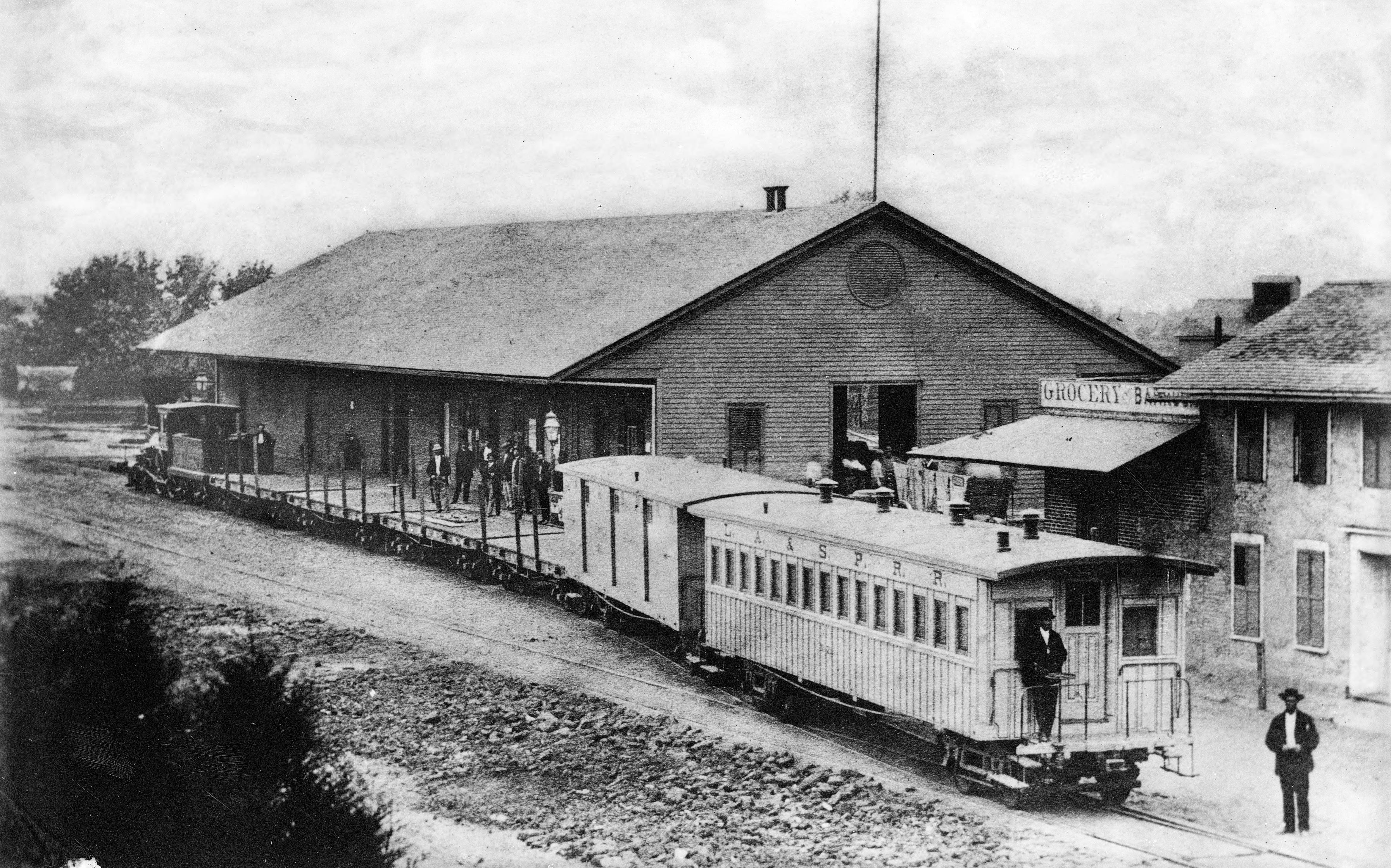 Photograph of the exterior view of the Los Angeles and San Pedro Station, the first railroad into Los Angeles, ca.1880. A locomotive hauling its tender, four empty cars, a covered car and a caboose is stopped in front of the railroad station. A man is standing on the walkway at the rear of the train's caboose. Another man stands on the ground at the rear of the train. People are standing around at the side of the station to wait for their train. To the right of the train station is a small grocery store. Legible signs include: "L.A. & S.P.R.R.", "grocery & ba[...]".